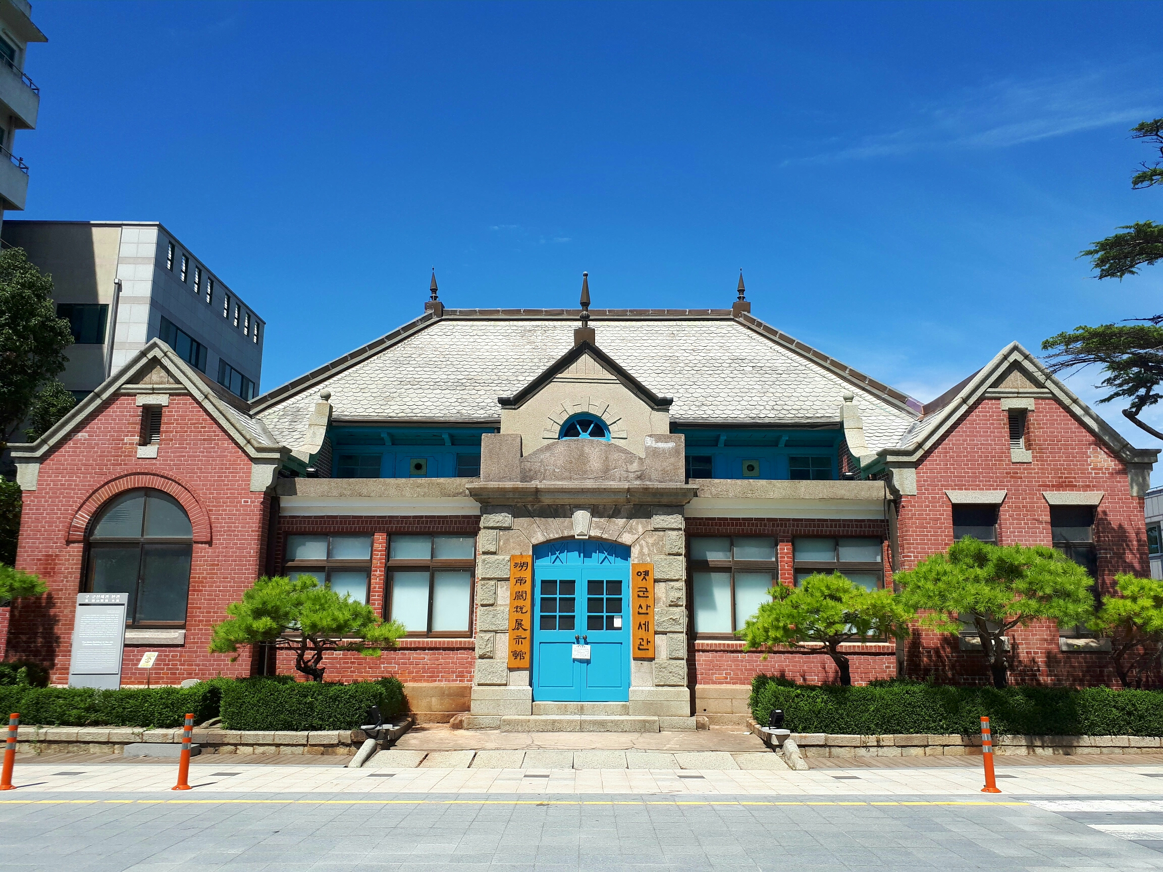 Old Gunsan Custom Office. Built with bricks in period of Japanese occupation.